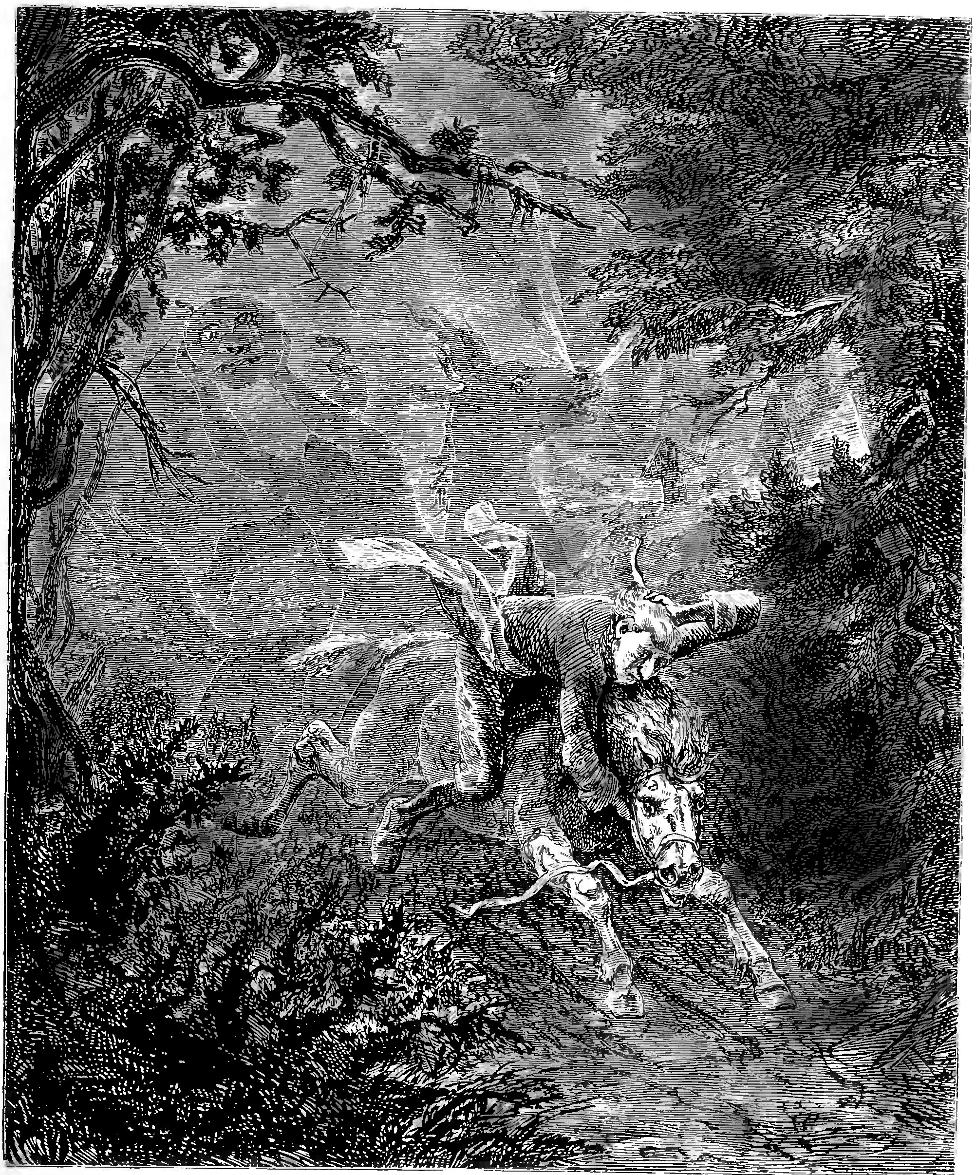 from The Legend of Sleepy Hollow, 1864 ed.